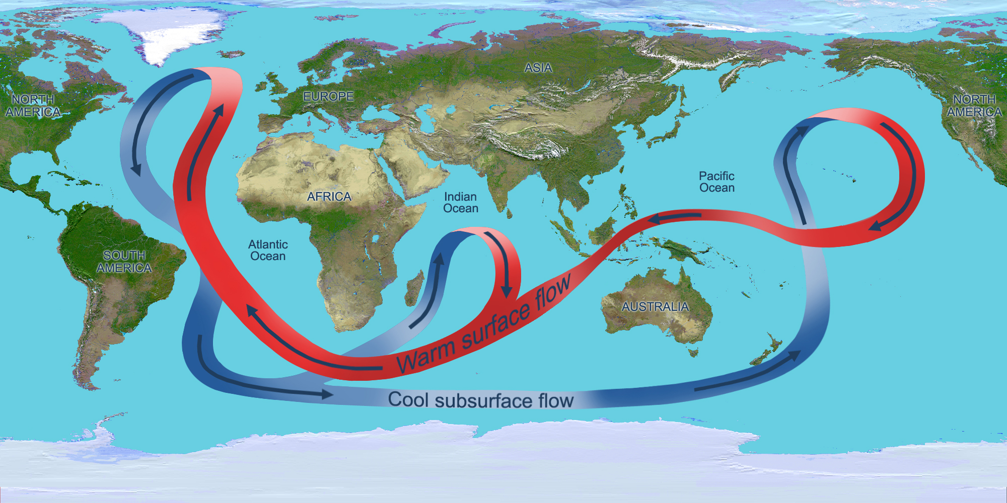 The overturning circulation of the global ocean. Throughout the Atlantic Ocean, the circulation carries warm waters (red arrows) northward near the surface and cold deep waters (blue arrows) southward.